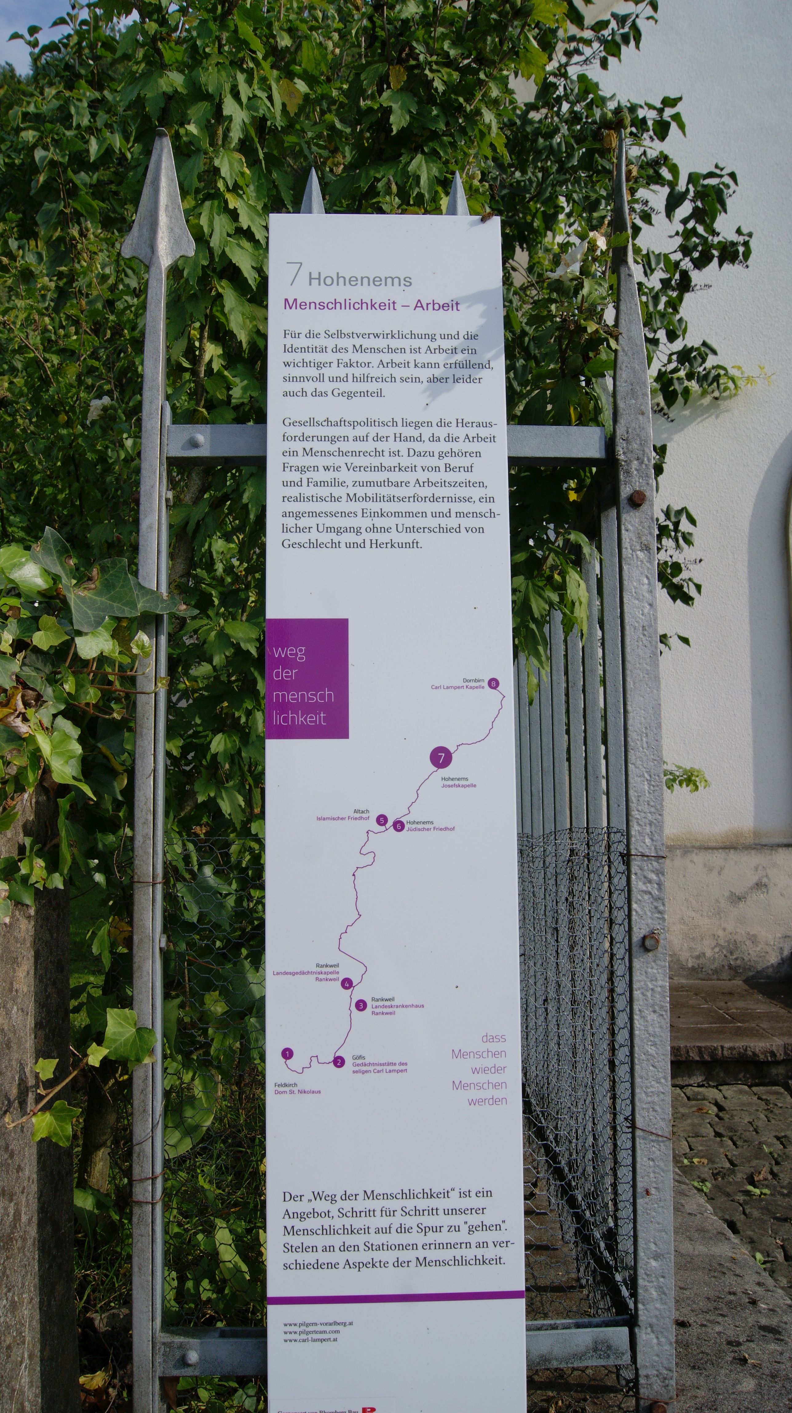 Chapel of St.. Joseph in the local district of "Unterklien", Hohenems, Vorarlberg, Austria. Information board for the "path of humanity" (pilgrim route from Feldkirch to Dornbirn).